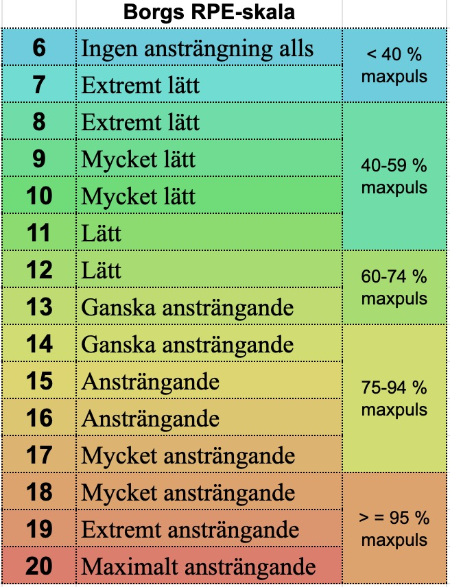 Borg rating of perceived exertion scale (Swedish version)